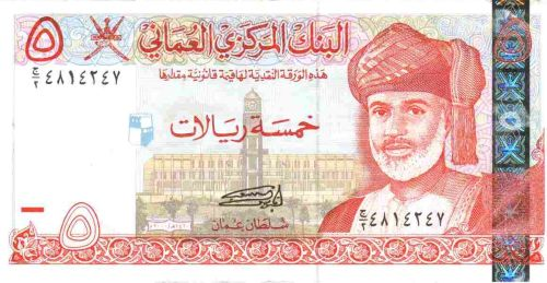 5 Oman rial (obverse)